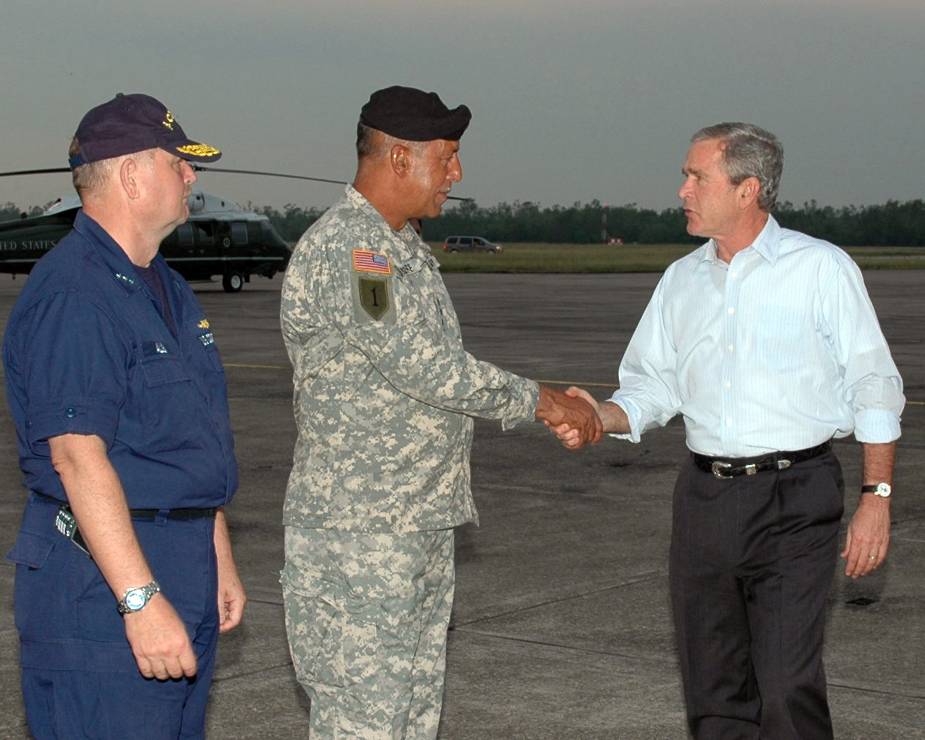 New Orleans (Oct. 10, 2005) - President George W. Bush greets Commander, Joint Task Force Katrina, U.S. Army Lt. Gen. Russel Honore, and Director of FEMA Relief Efforts, U.S. Coast Guard Vice Adm. Thad W. Allen as he steps off Air Force One on board Naval Air Station Joint Reserve Base, New Orleans. President Bush and the first lady meet with top ranking military officials at NAS JRB, New Orleans to receive briefs on Joint Task Force Katrina relief efforts. The Navy's involvement in humanitarian assistance operations are led by the Federal Emergency Management Agency (FEMA), in conjunction with the Department of Defense. U.S. Navy photo by Photographer’s Mate 2nd Class William Townsend (RELEASED)